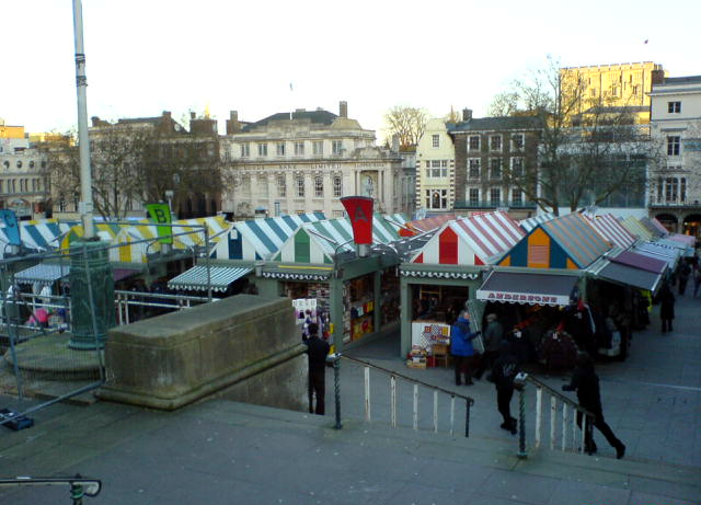 Photo of Norwich Market, that I took myself.